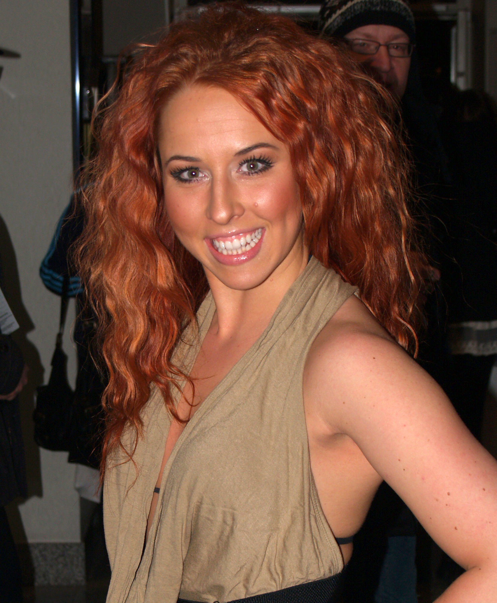 Linda Pritchard at Melodifestivalen 2010.